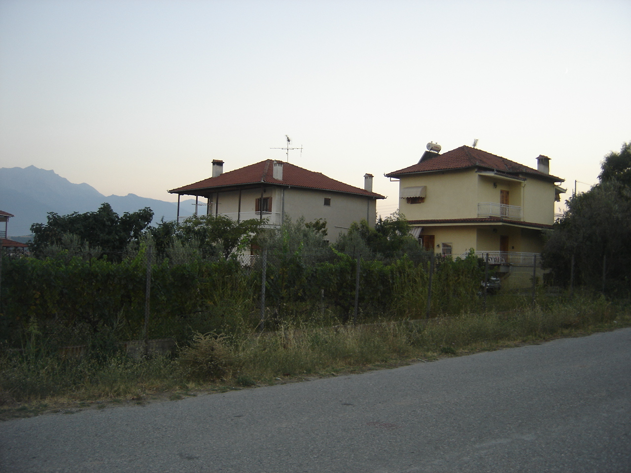 A view from Prosilio, a settlement near Svoronos.